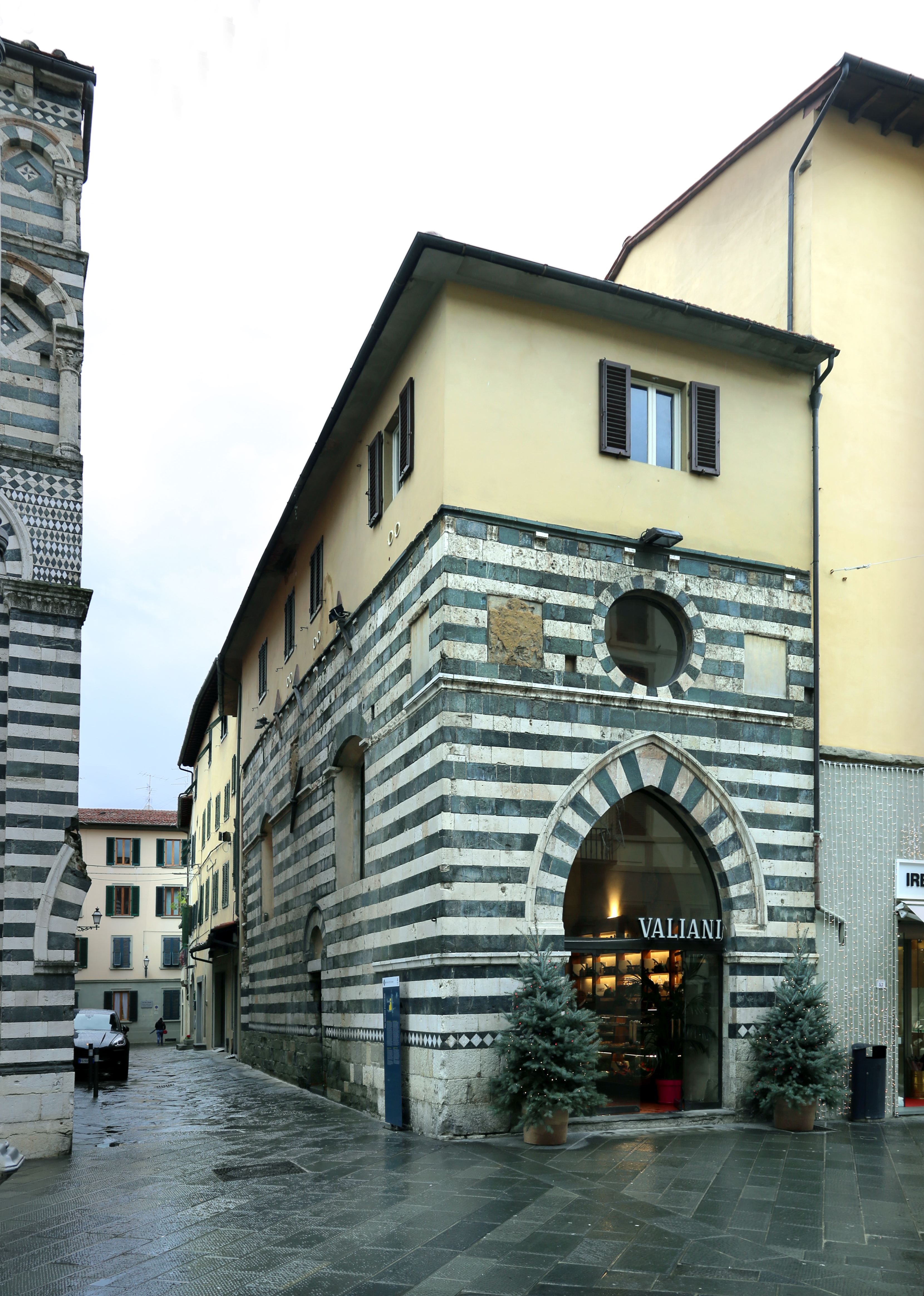 Oratorio di Sant'Antonio Abate (Pistoia)